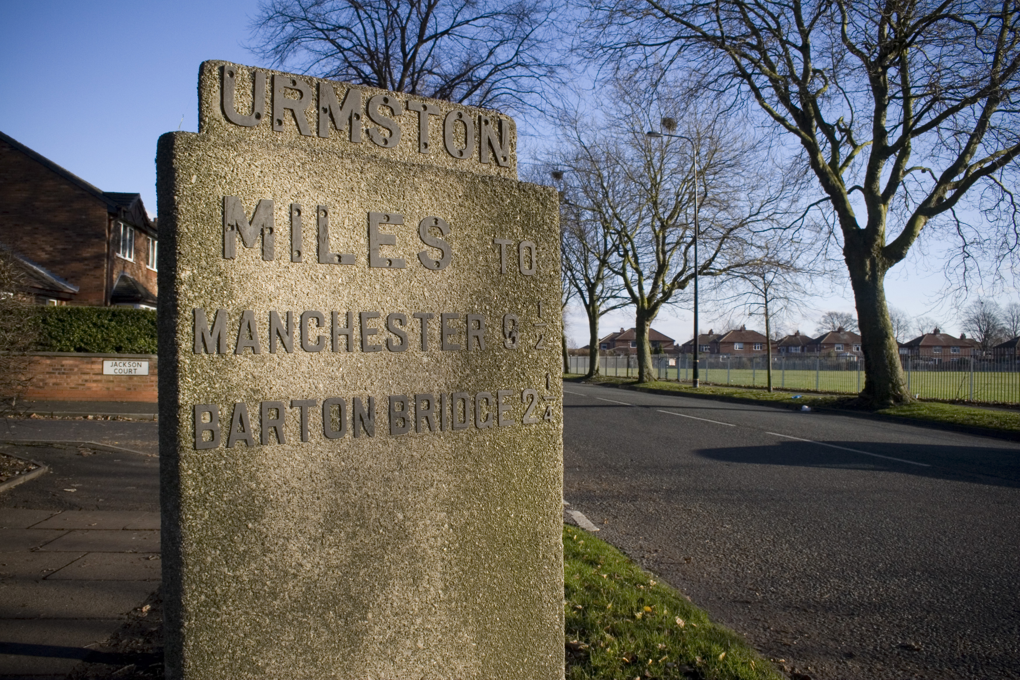 A milestone along Bowfell Road, in Urmston, Greater Mancheter. A plaque on the reverse reads "Urmston District Council. This road was formally opened by A--P. MacDonald J.P. Vice Chairman of the Lancashire County Council on October 22nd 1937."